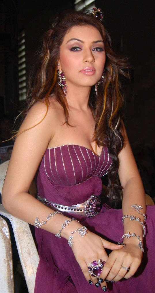 Indian Actess Hansika Motwani